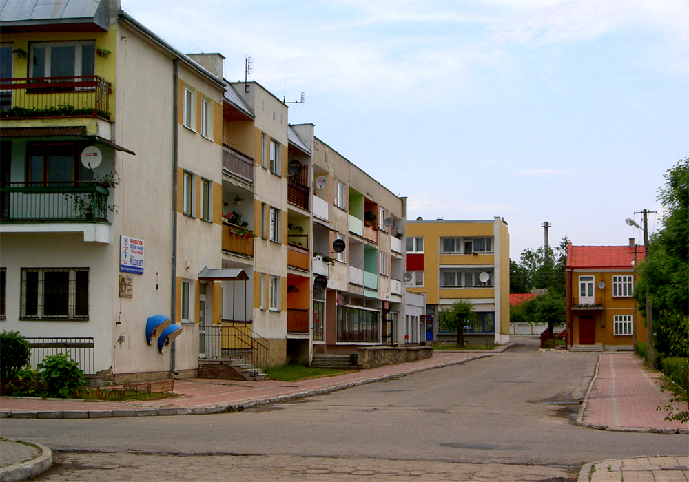 Turobin, Poland • Fragemnt rynku / Town square